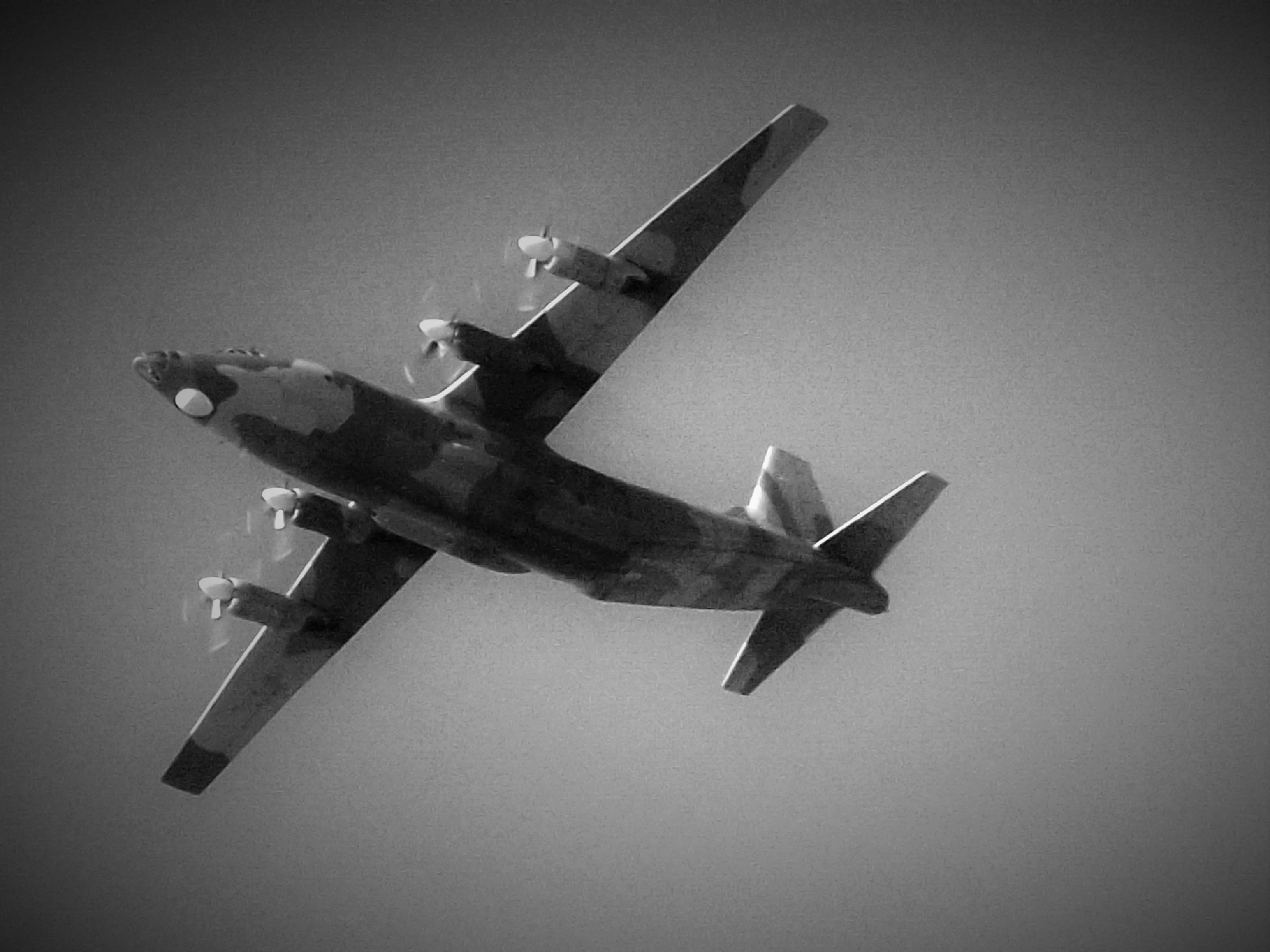 Shaanxi Y-8F-200W Venezuelan Air Force